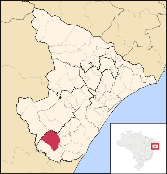 Map of Sergipe highlighting Itabaianinha